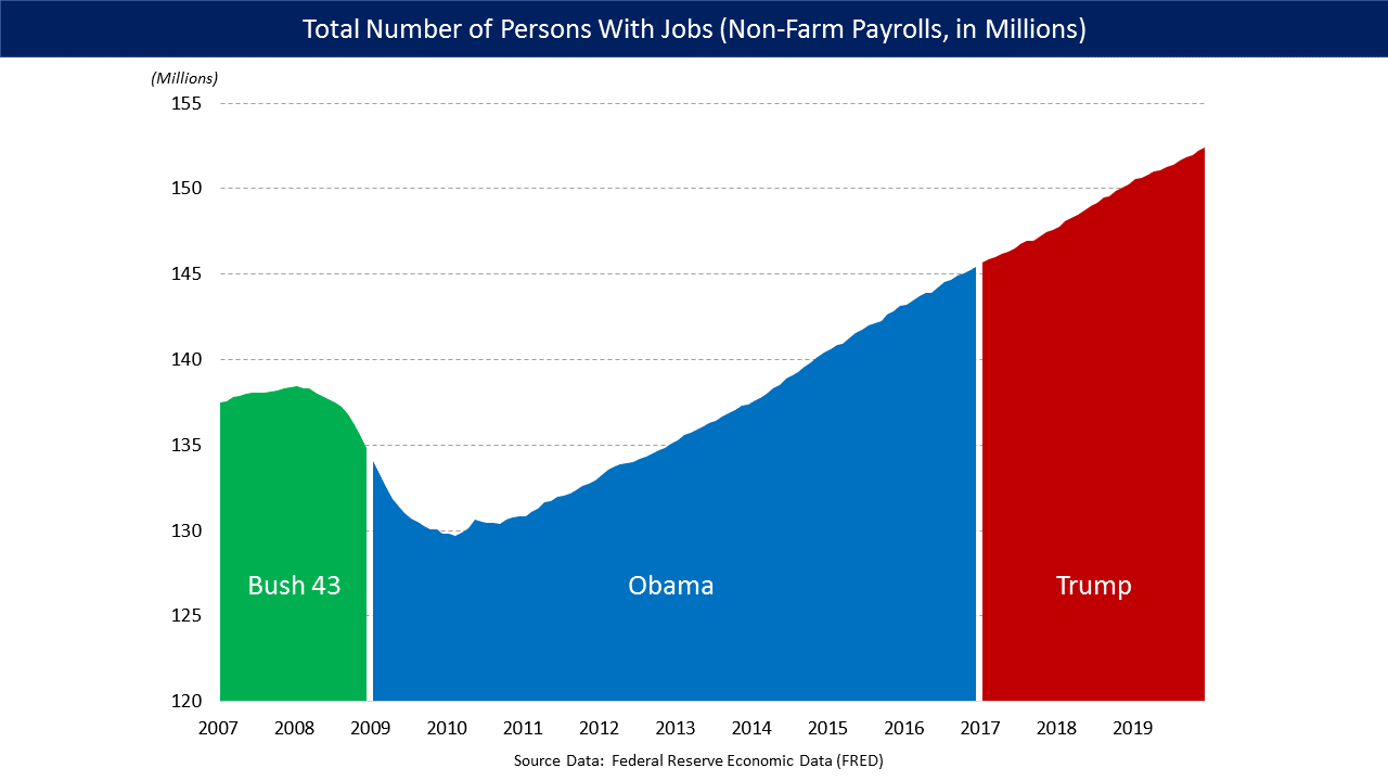 Chart showing the total number of persons with jobs (non-farm payrolls) in the U.S. from 2007-2019. This variable has set records each month starting in May 2014, with 111 consecutive months of positive job creation from October 2010 to December 2019.